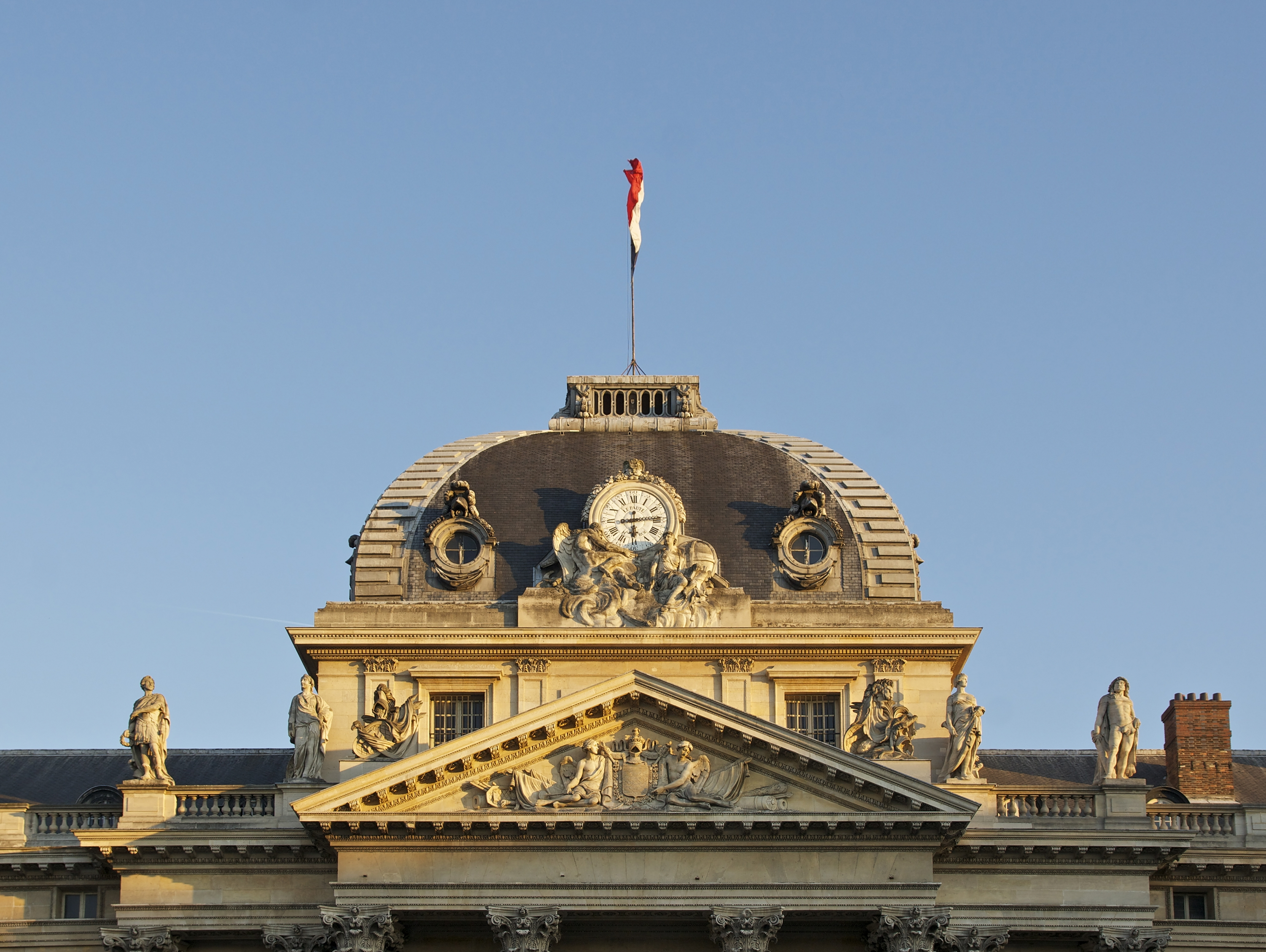 Pediment and central part of the roof of the main building of the "Ecole Militaire" in Paris